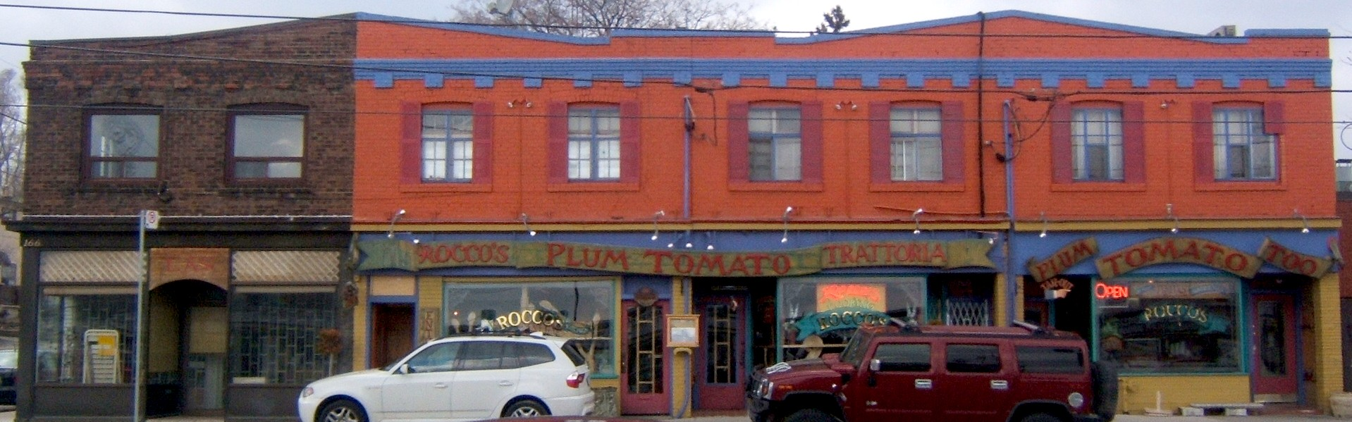 Old Businesses on The Queensway